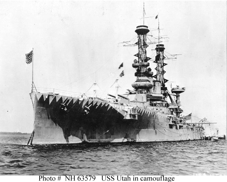 US battleship USS Utah (BB-31) during World War I, wearing camouflage.